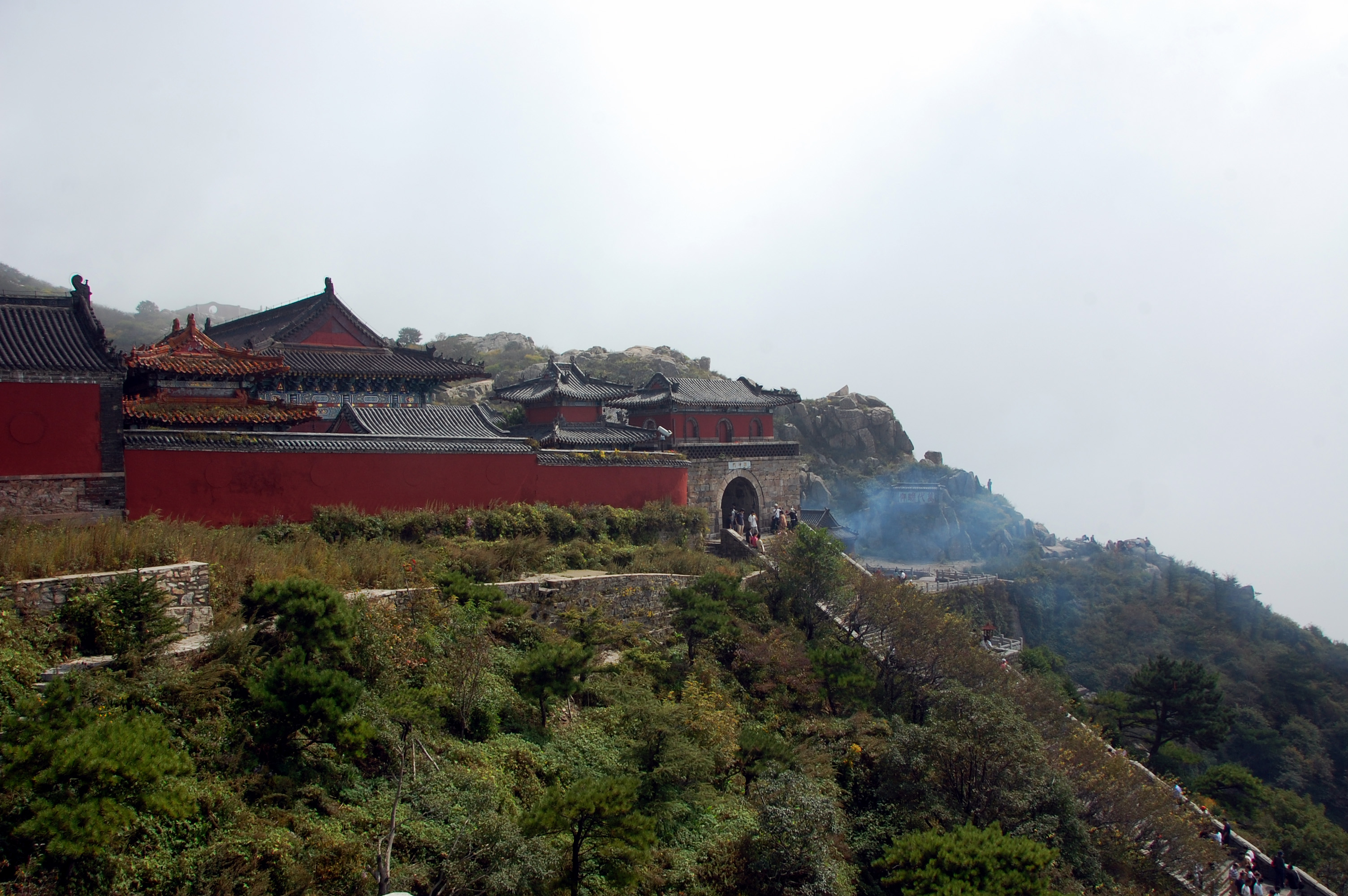 Mount Tai, Top